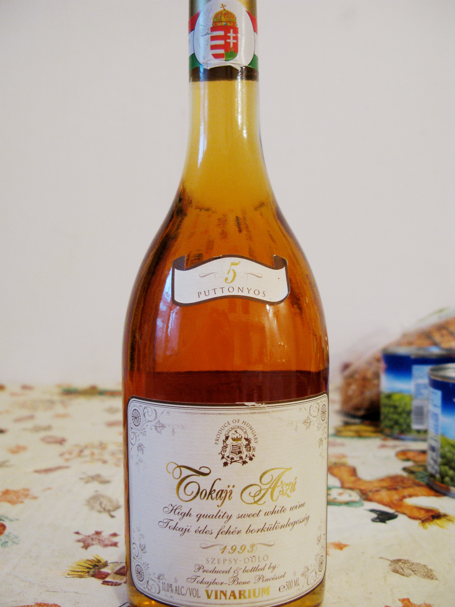 A bottle of 1993 Tokaji wine from Hungry. The sweetness level is 5 Puttonyos